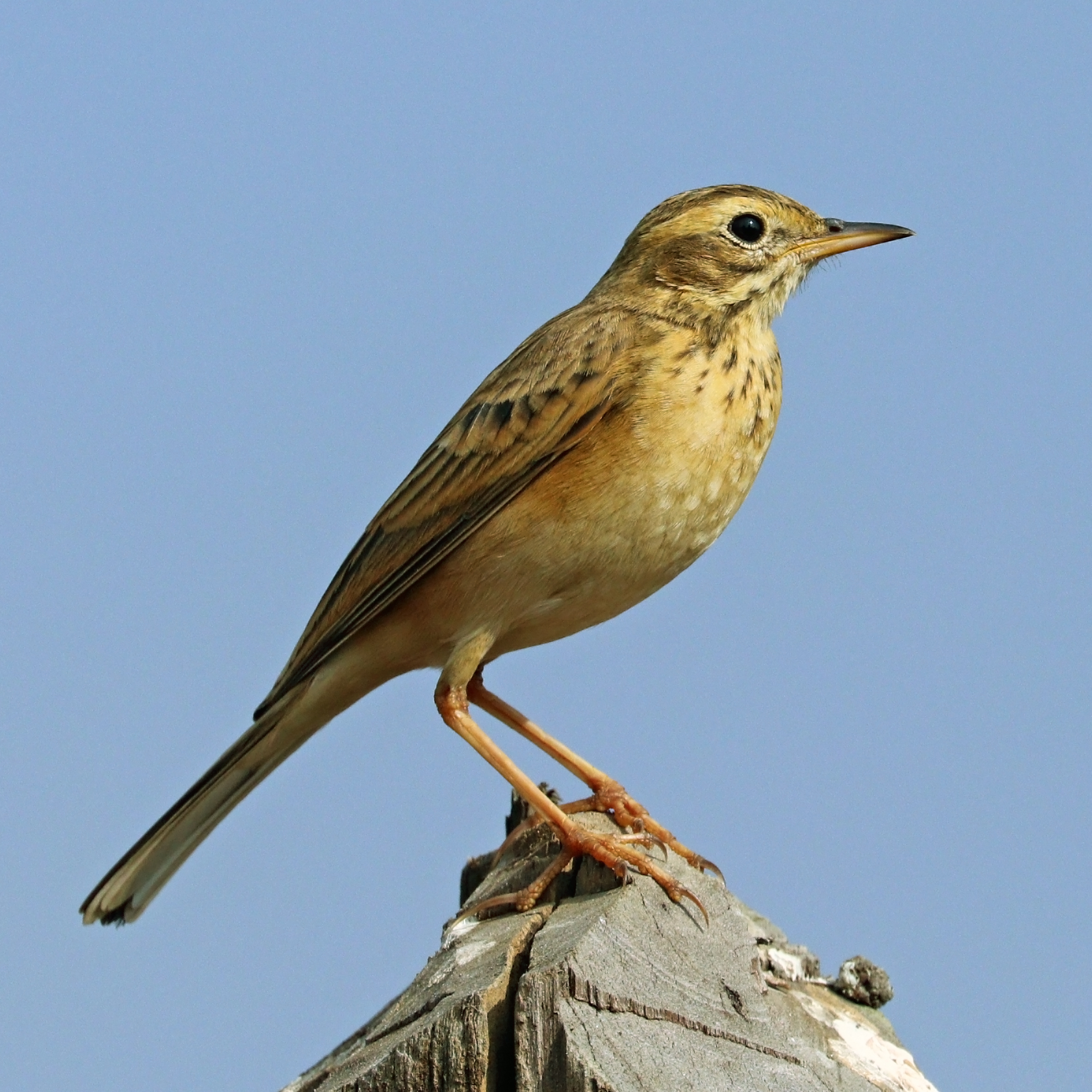 Paddyfield pipit (Anthus rufulus rufulus), Kanha National Park, MP, India